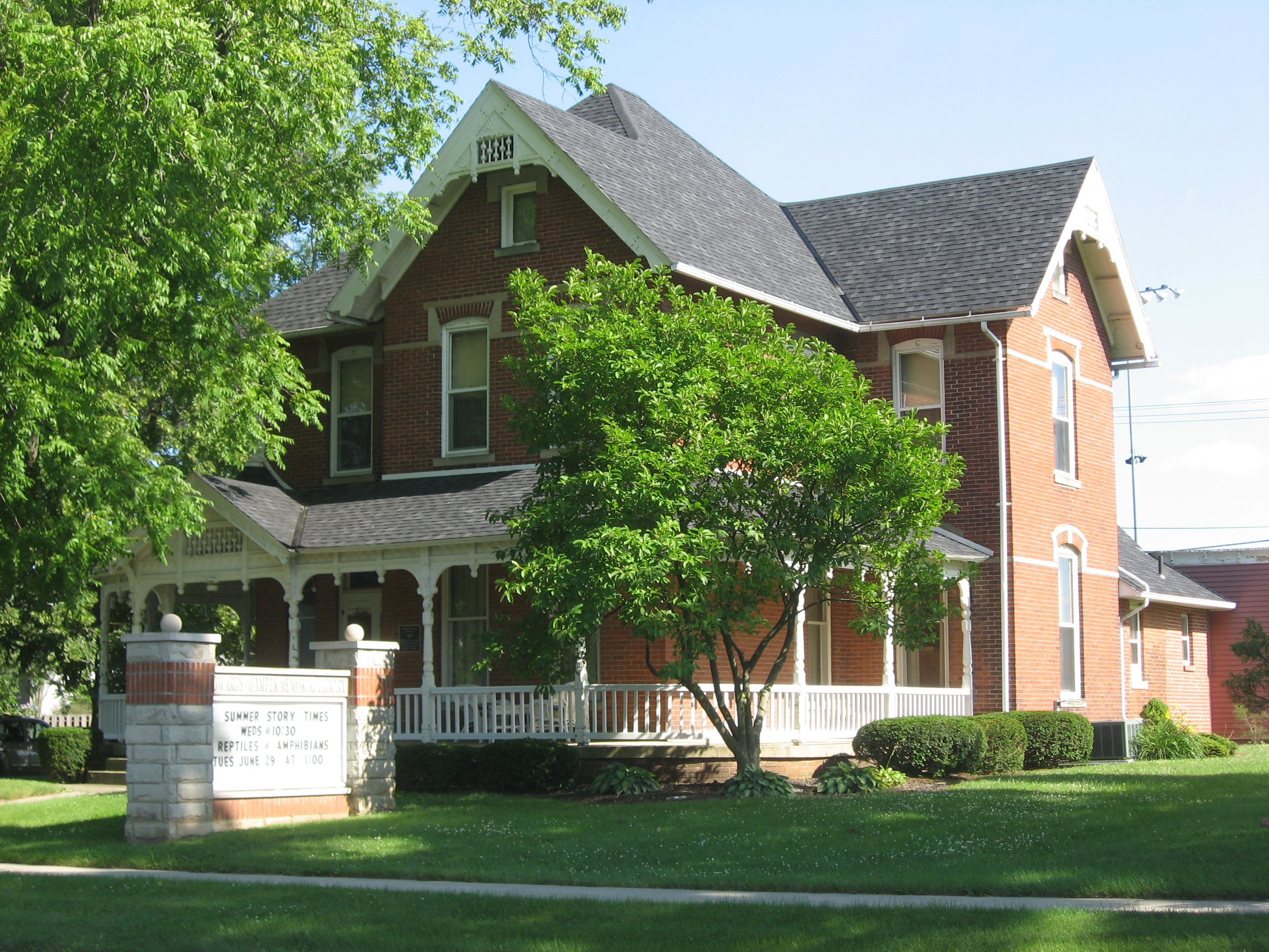 Front of the John Edwards House, located at 305 W. Main Street (State Route 613) in Leipsic, Ohio, United States. Built in 1894 and since converted into a public library, it is listed on the National Register of Historic Places.